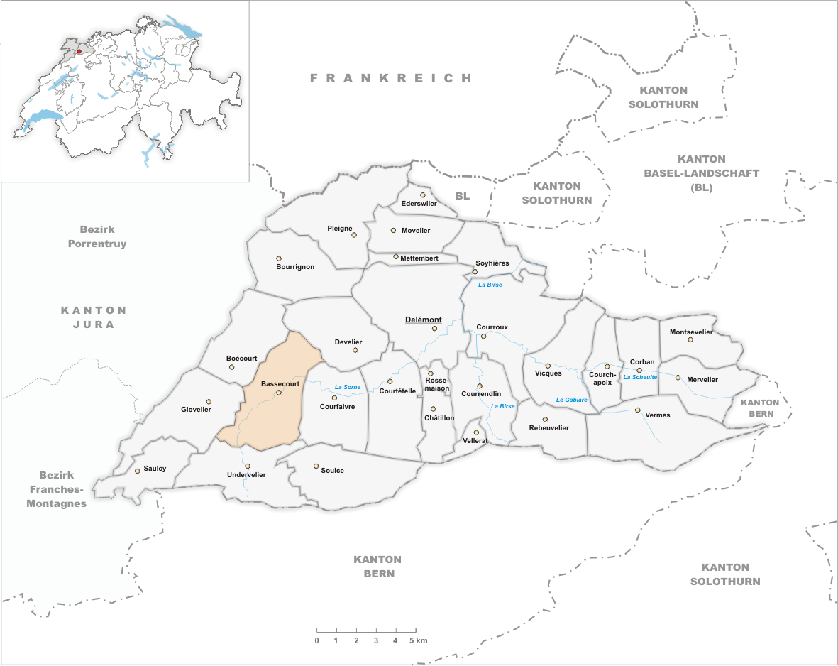 Municipality Bassecourt